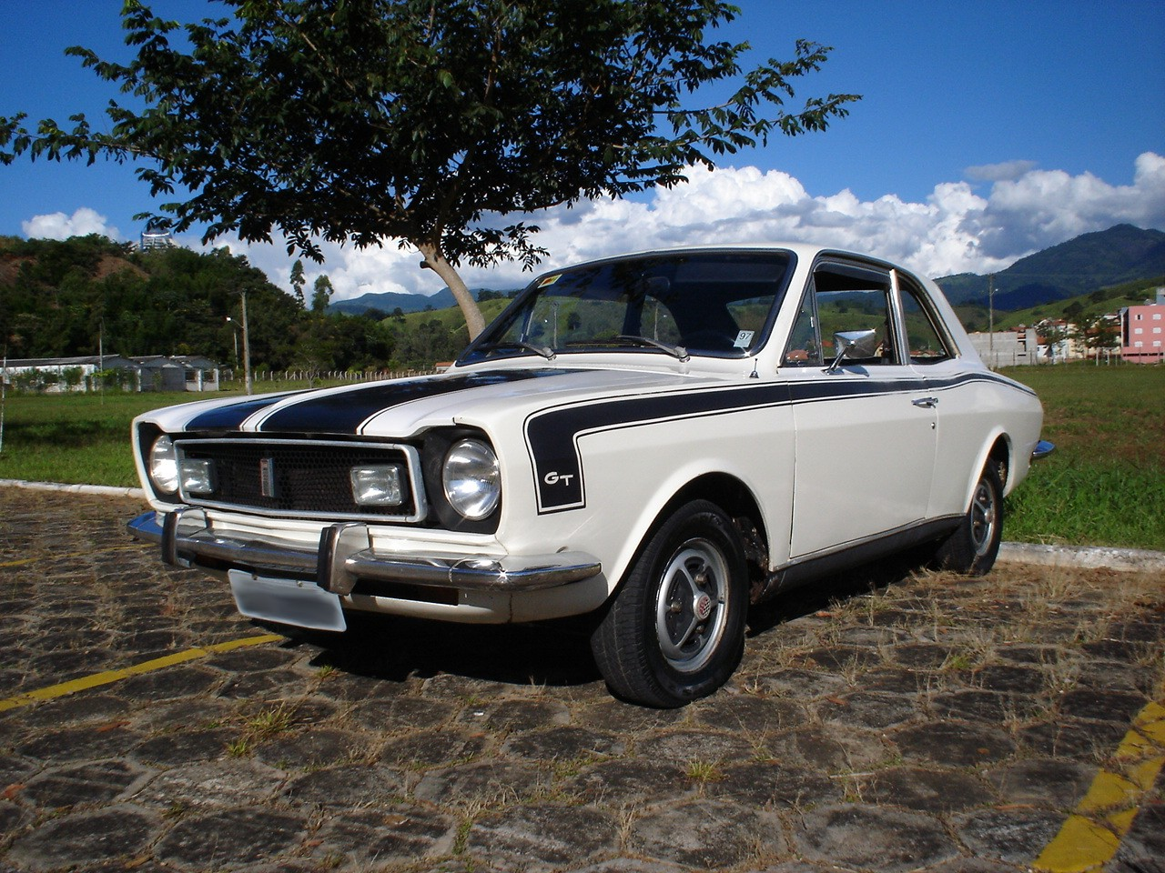 Front and side view of a 1973 Ford Corcel GT